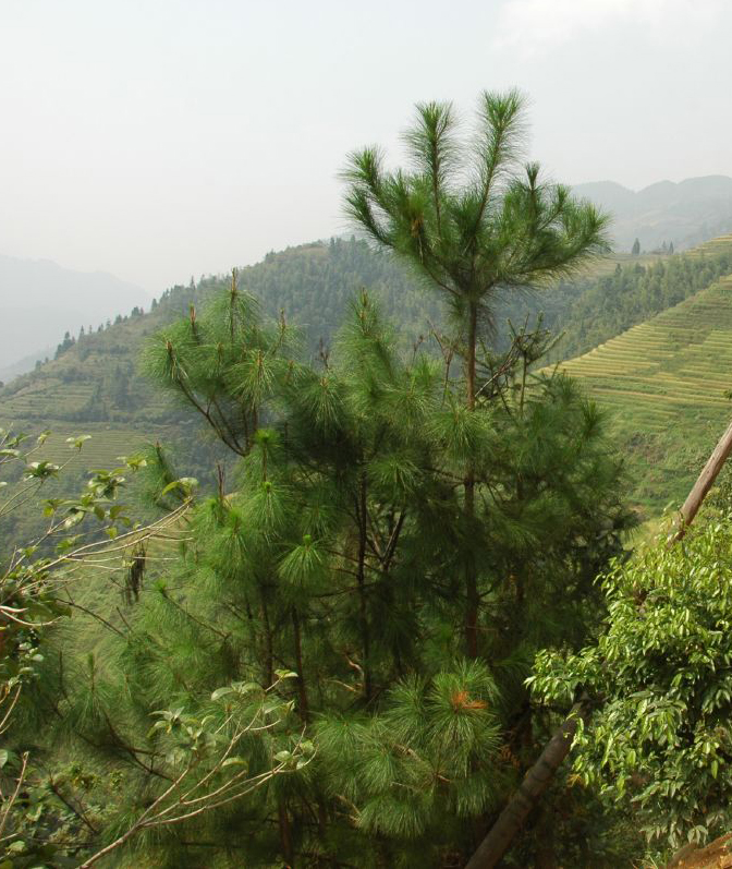 Pinus massoniana young tree, near LongShen, LongGi, Guilin, China.